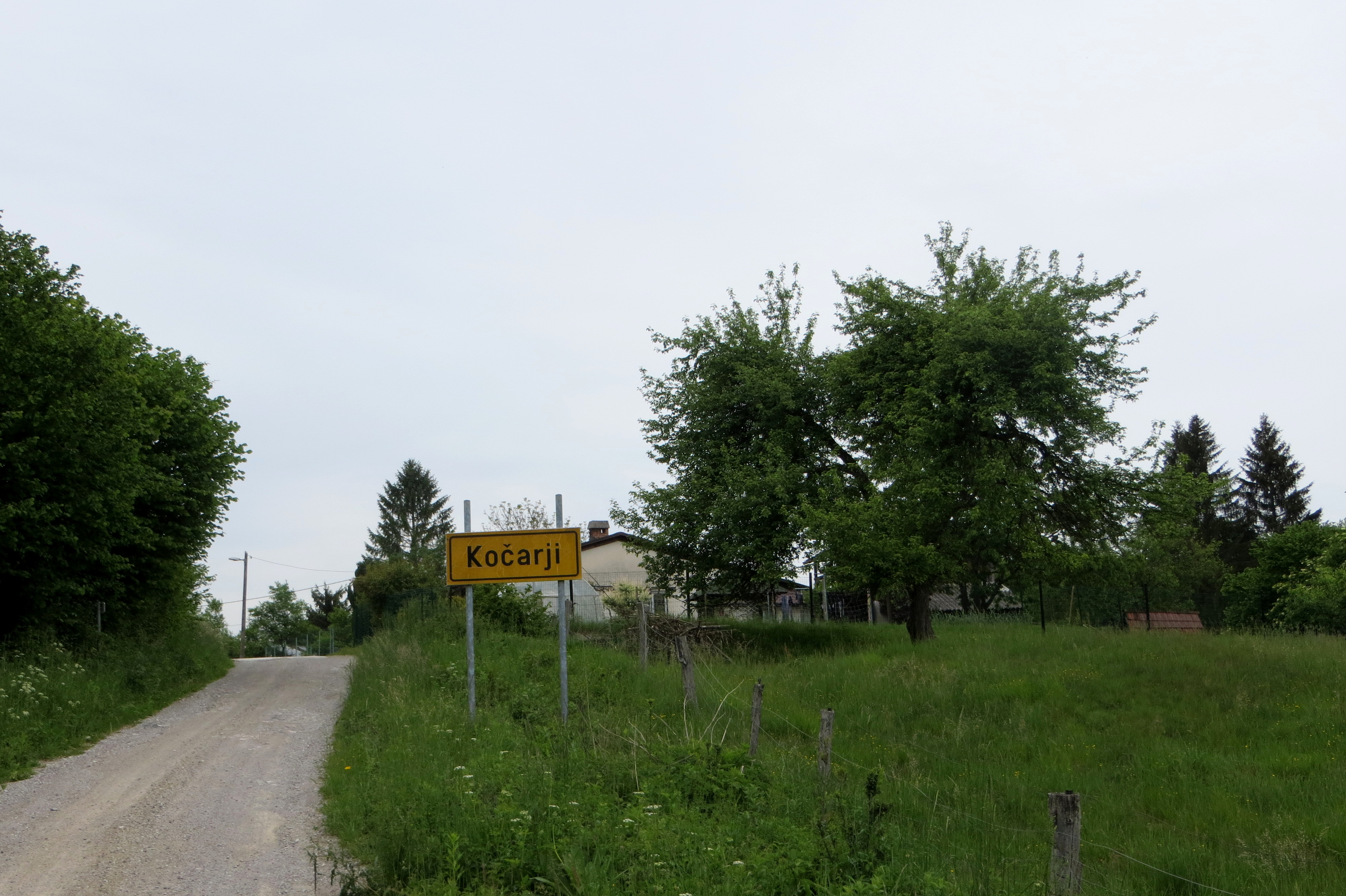 Kočarji, Municipality of Kočevje, Slovenia